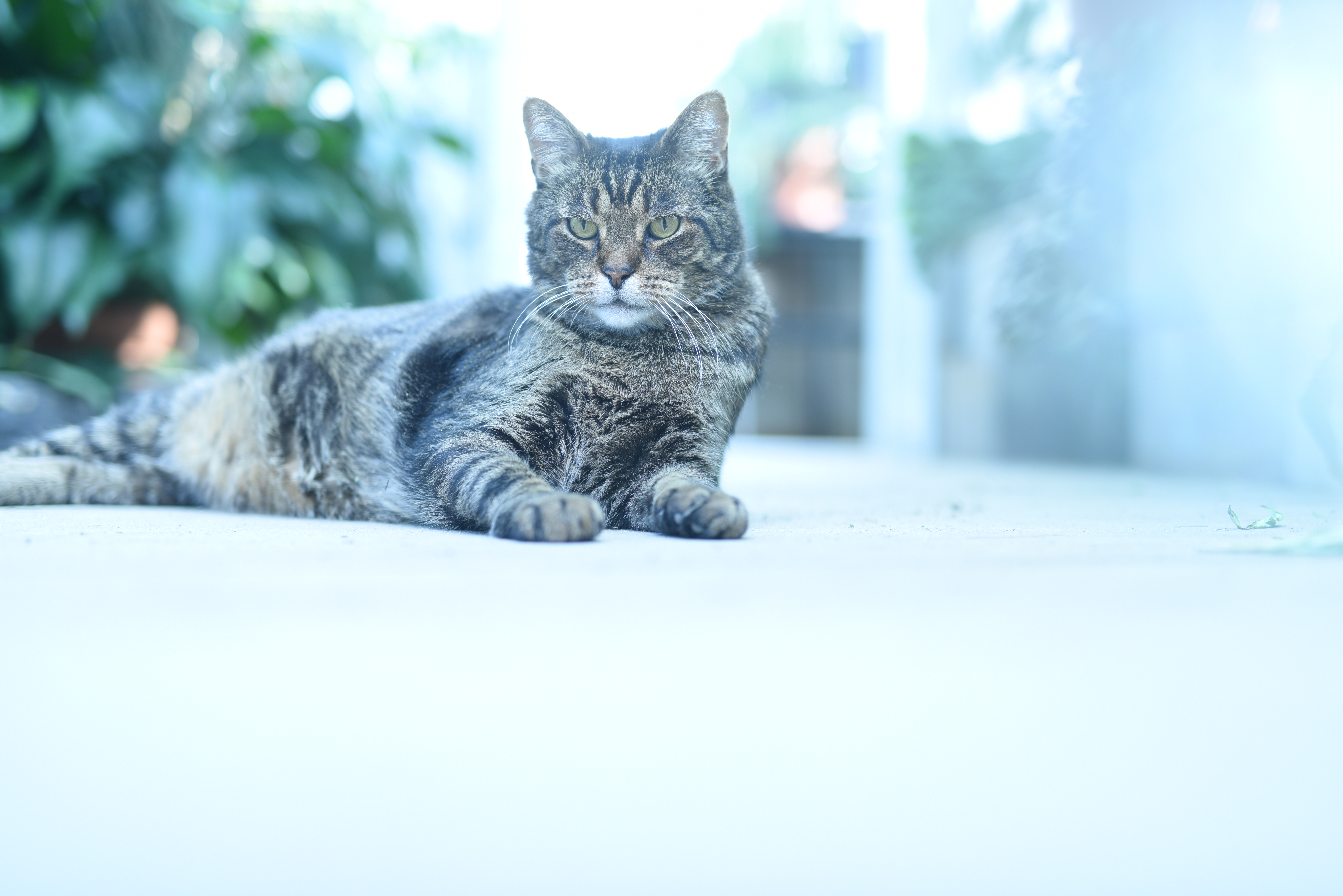 "A cat can hear high-frequency sounds up to two octaves higher than a human."